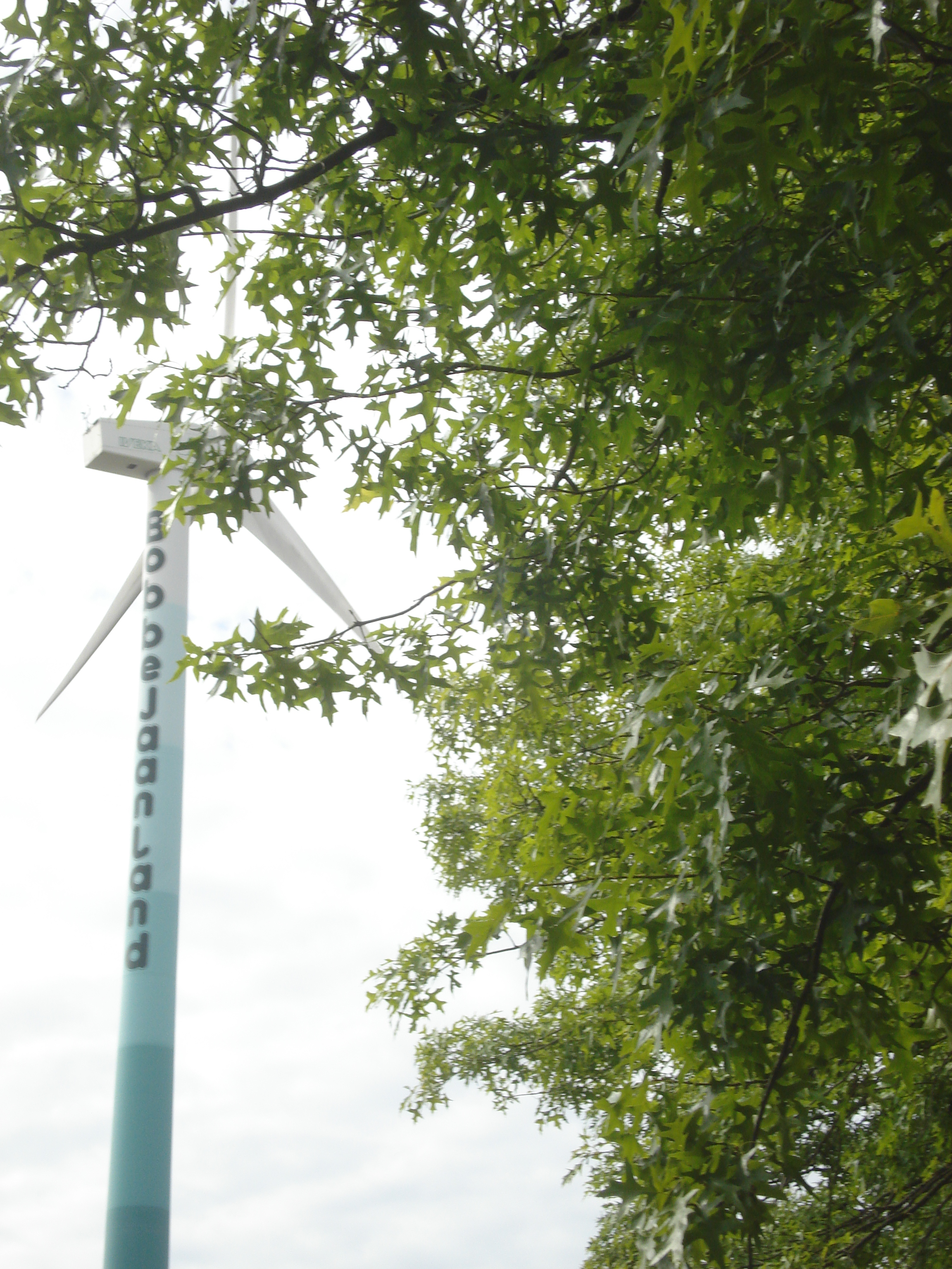 Bobbejaanland windmill